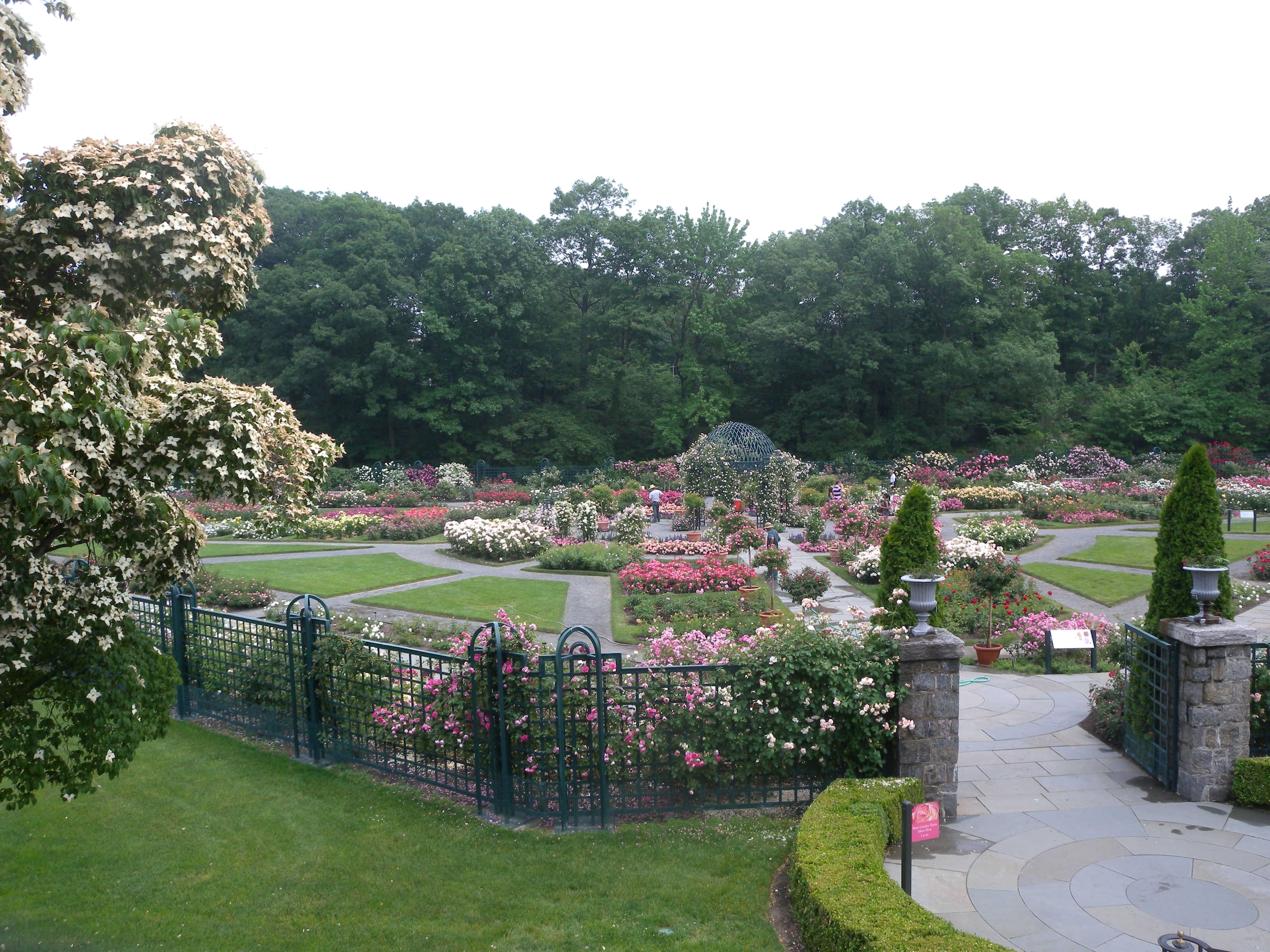 Looking east at Rockefeller Rose Garden on a hot hazy midday.